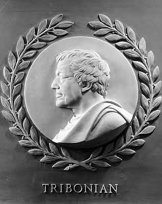 Tribonian marble bas-relief, one of 23 reliefs of great historical lawgivers in the chamber of the U.S. House of Representatives in the United States Capitol. Sculpted by Brenda Putnam in 1950. Diameter 28 inches.